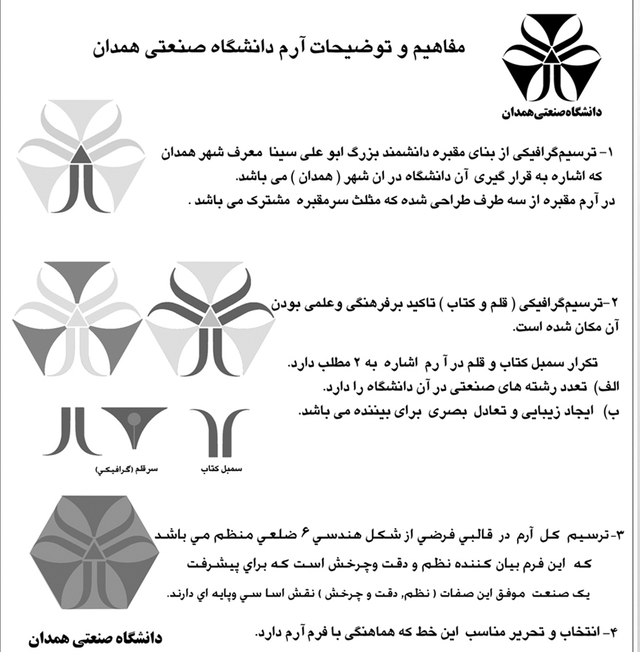 توضیح نشان دانشگاه